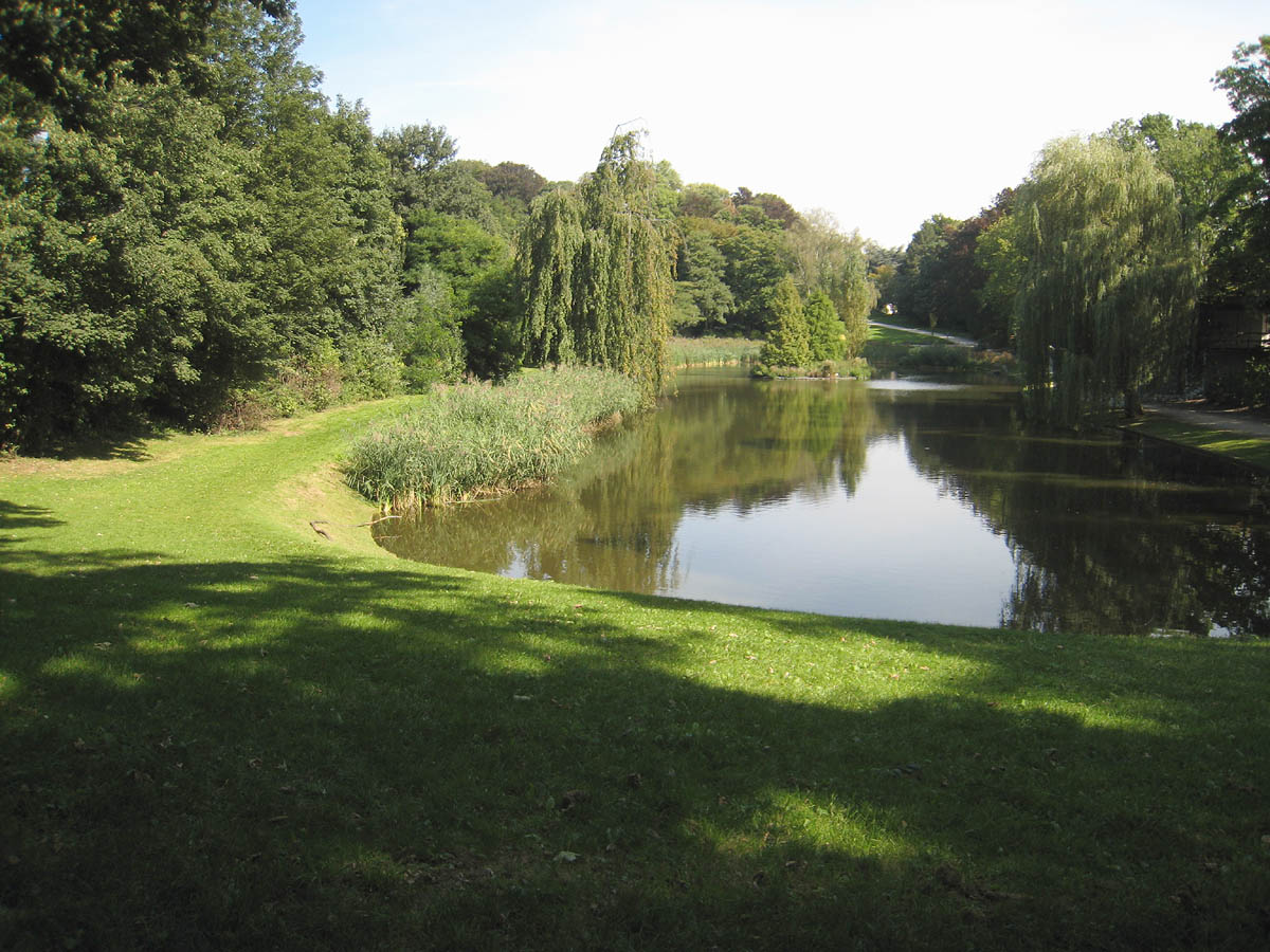 The lake in Astrid Park, Anderlecht